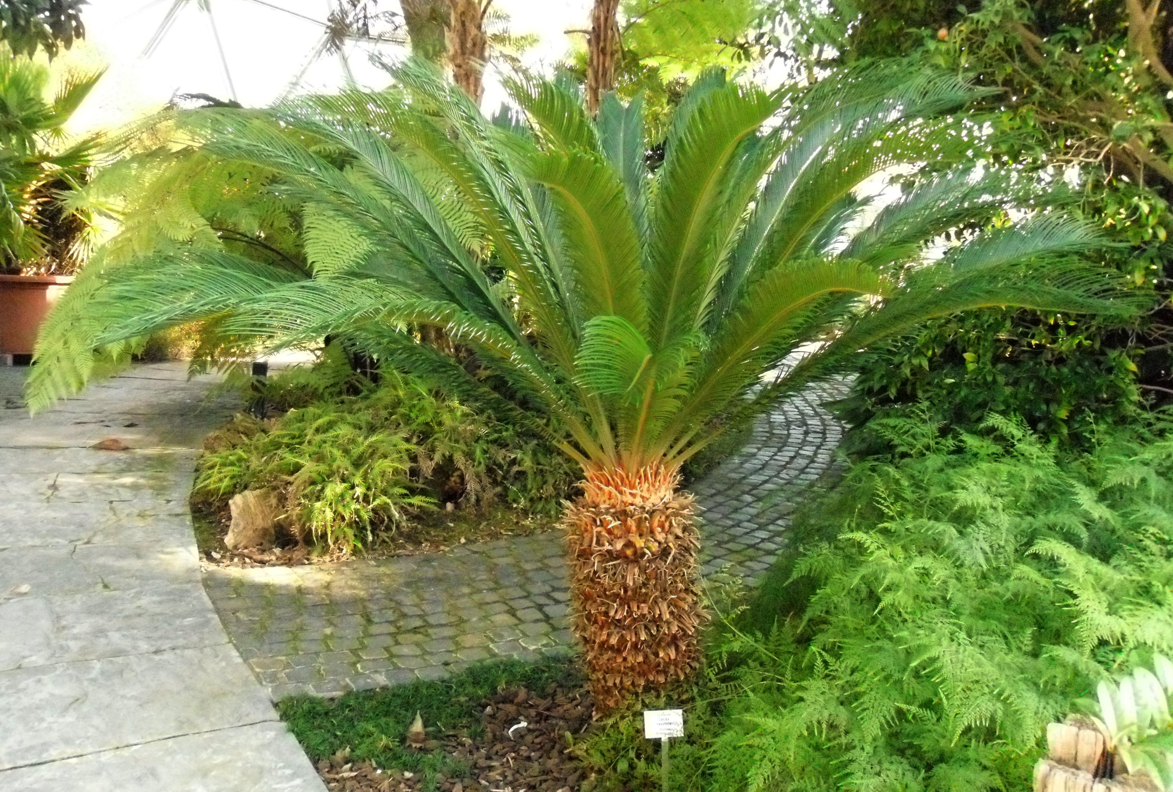 Cycas revoluta in a botanical garden maintained by the University of Düsseldorf.